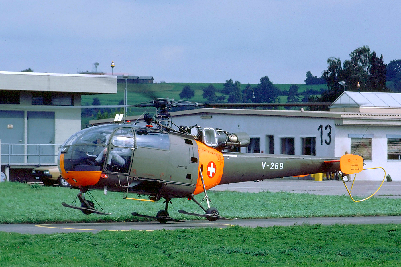 Dübendorf, 25 August 1984. Close to the action during the open day at Dübendorf after the Flugmeisterschaften exercise.